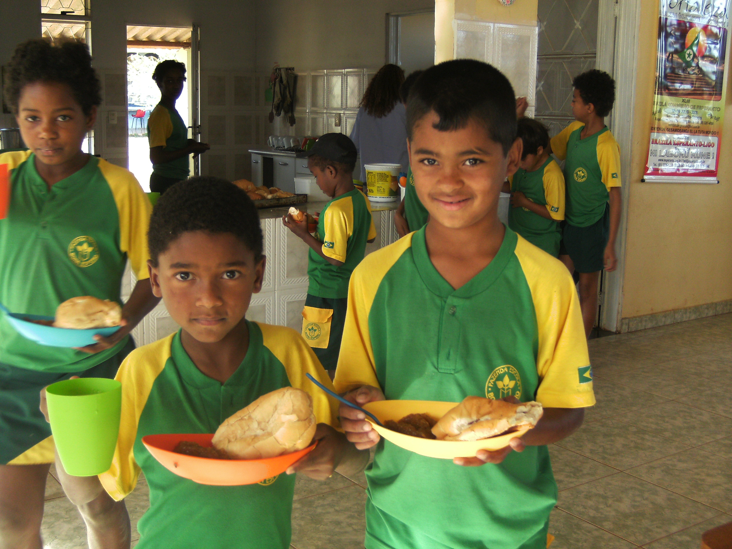 Children in school uniforms with their lunch; Bona Espero School, Alto Paraíso de Goiás, Brazil